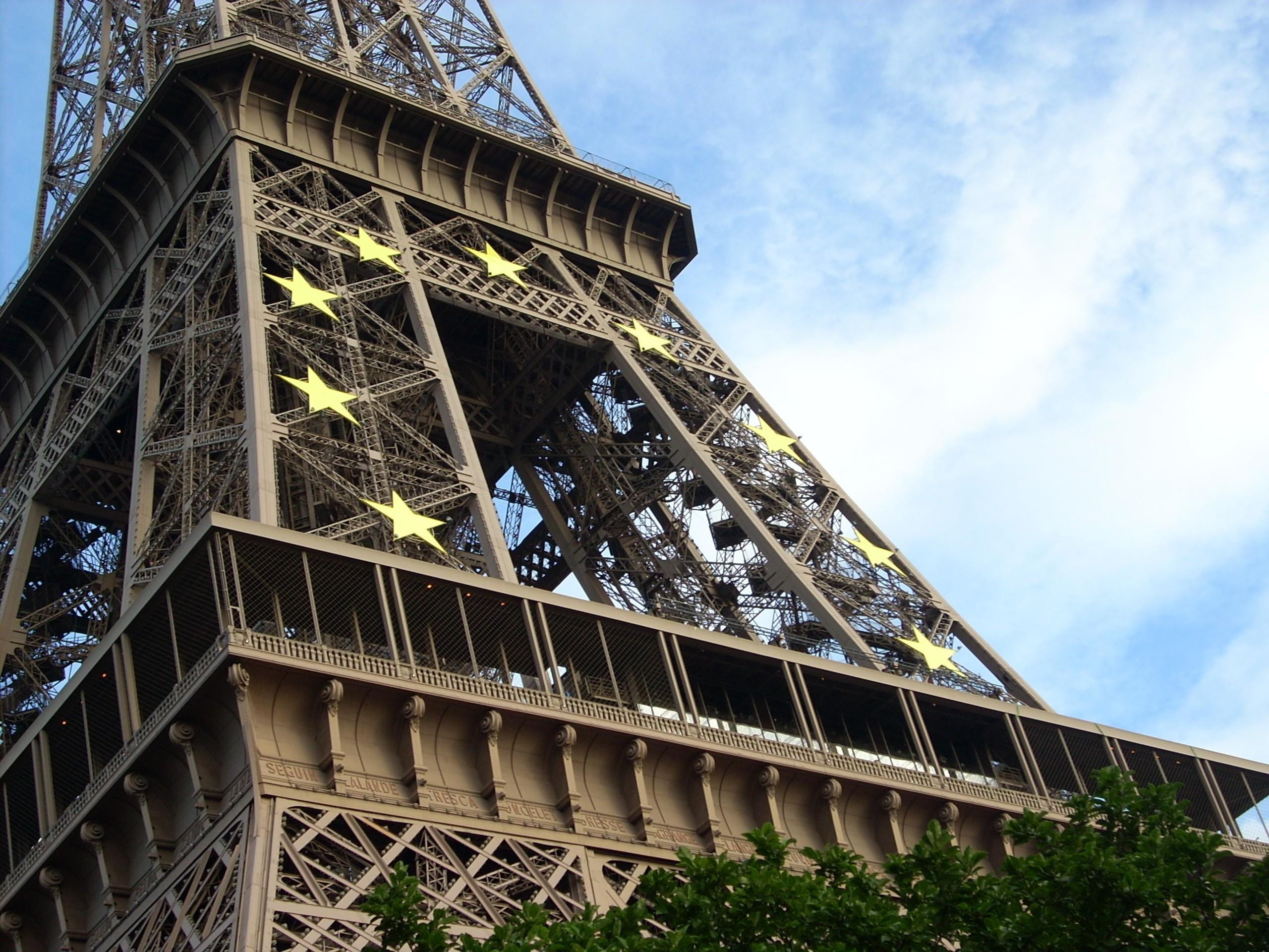 Eiffel Tower - European Union stars